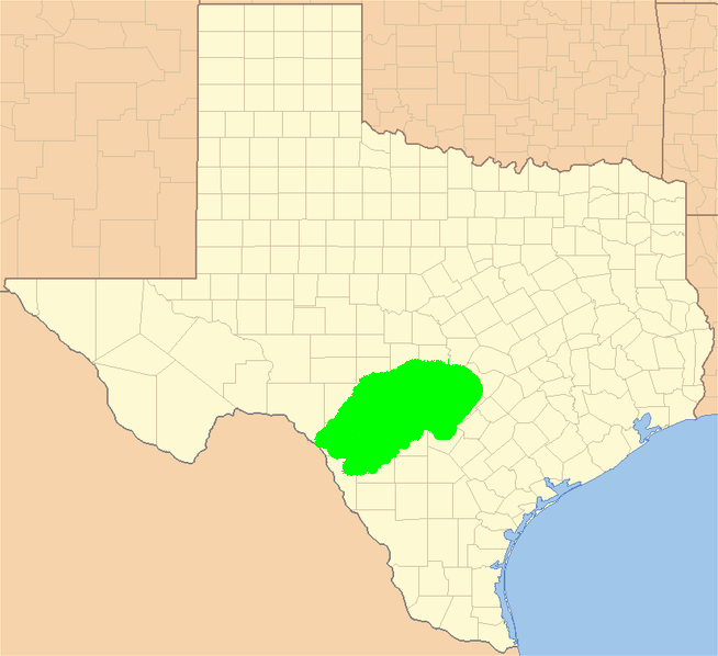 Update of previous image